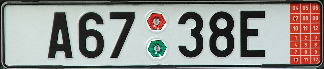 Czech temporary registration for cars to be exported to another country. A - stands for Prague, E - for export.